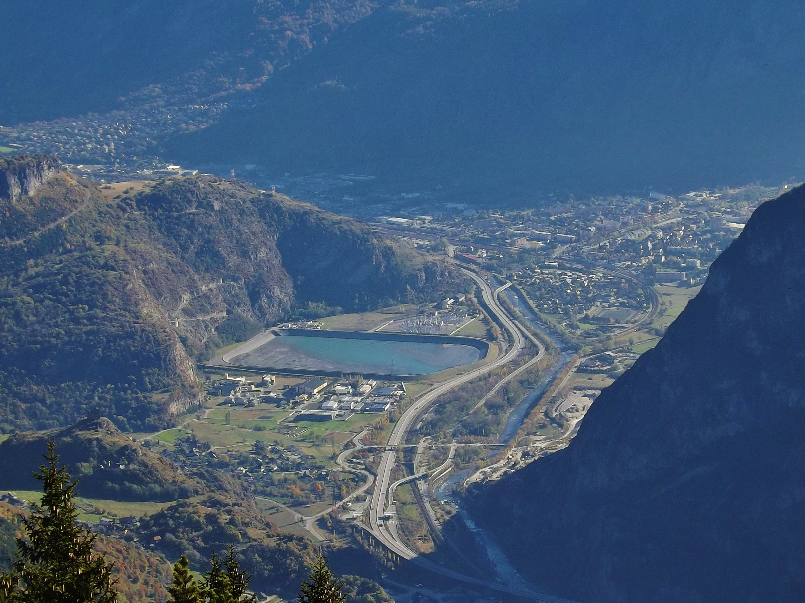 Panoramic sight, from the pointe de l'Armélaz peak (1,840 meters high) of the middle part of the Maurienne valley, with visible Saint-Jean-de-Maurienne, in Savoie.